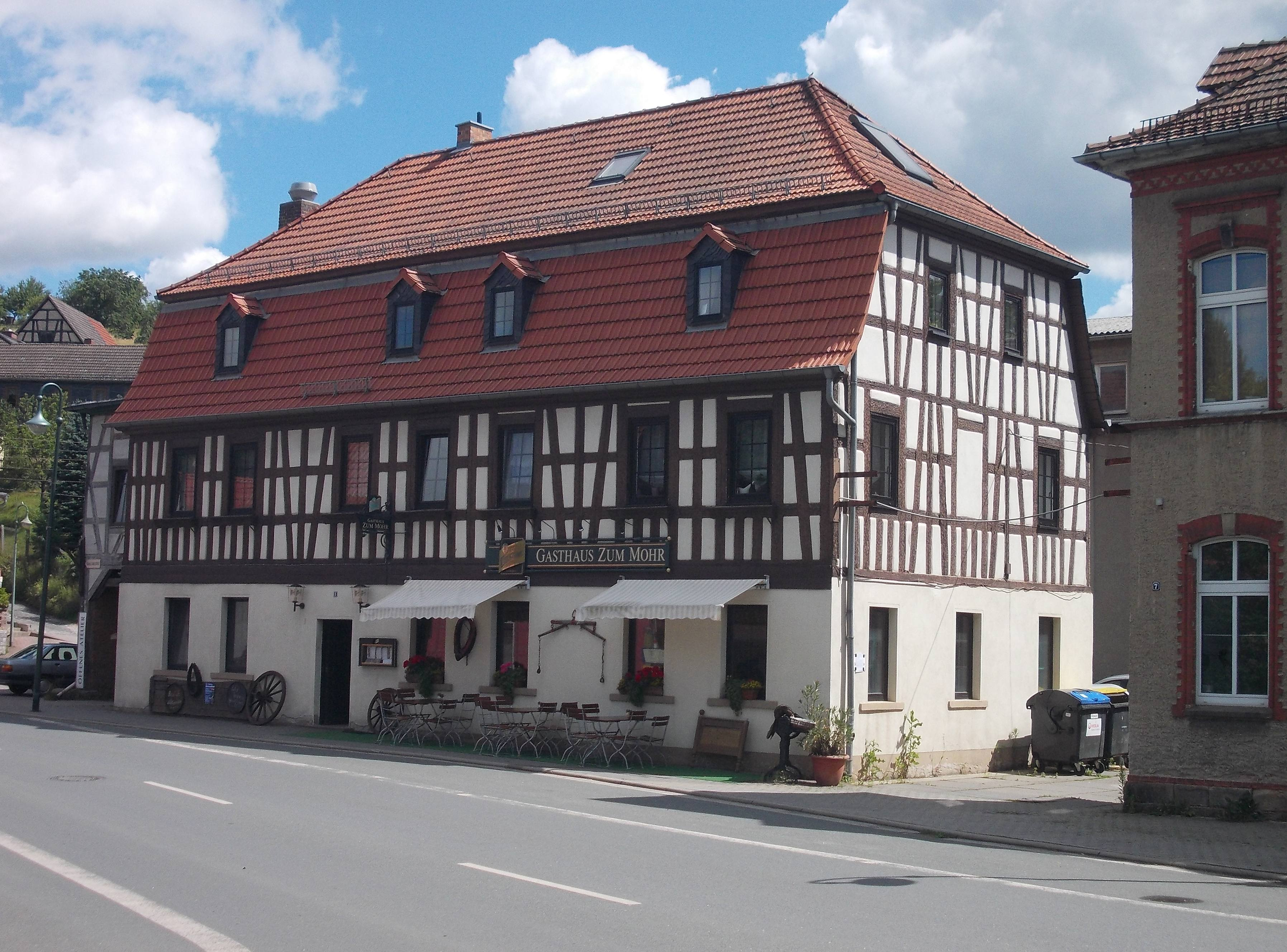 "Zum Mohr" inn in Tröbnitz (Saale-Holzland-Kreis, Thuringia)